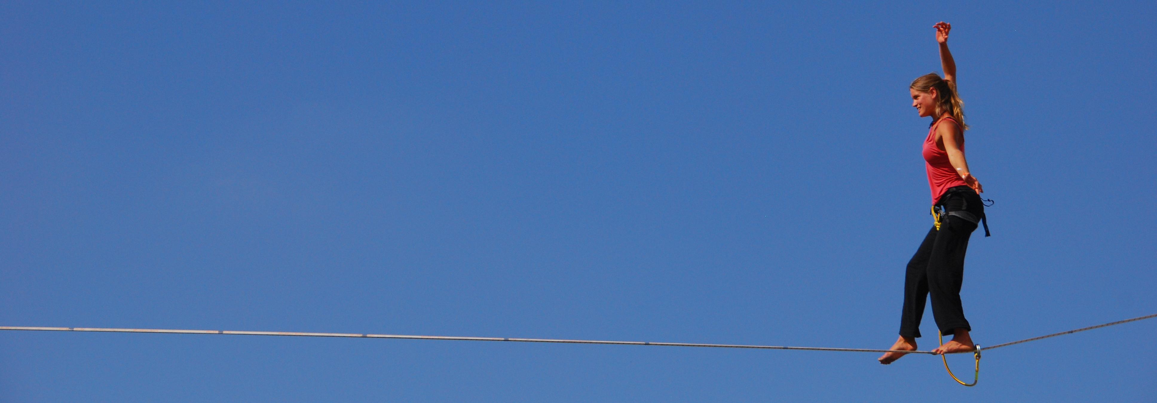 Slackline in Vienna center